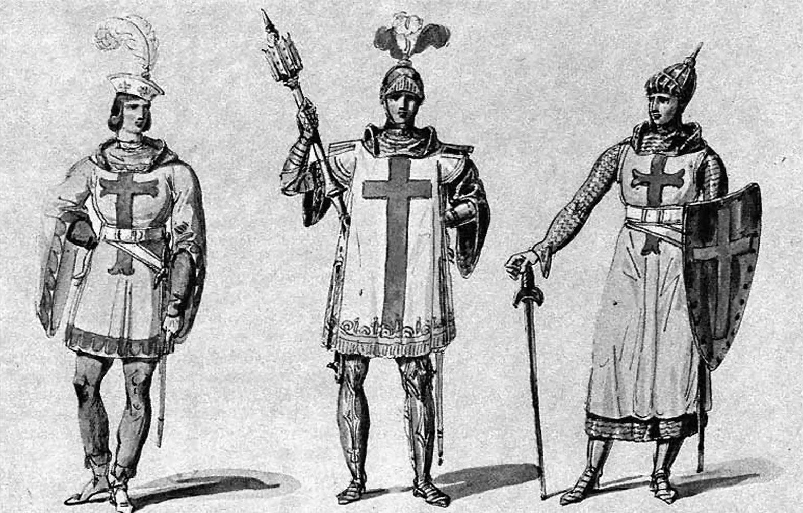 Costume designs for the Paris production (1854) of Meyerbeer's Il crociato in Egitto